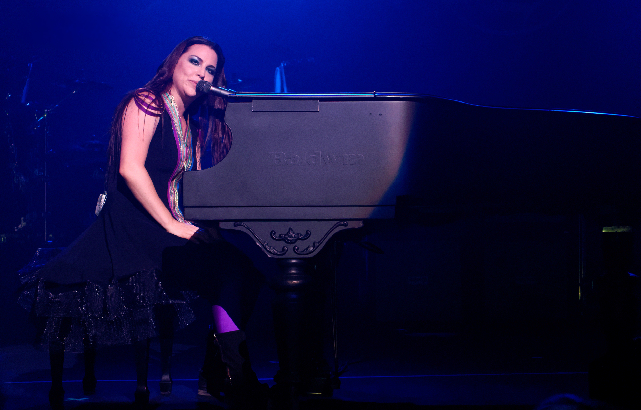 Evanescence performing live at The Wiltern theatre in Los Angeles, California on Tuesday November 17th, 2015.